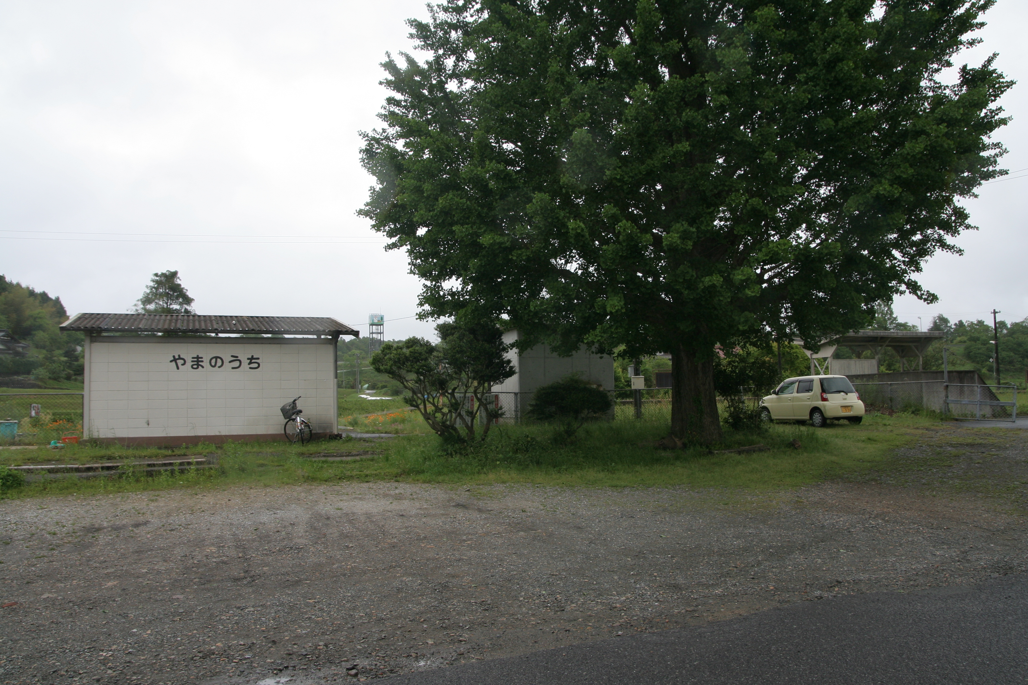 JR West Geibi Line Shimo-Wachi Station front